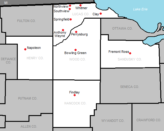 Map of Northern Lakes League schools in 2011.